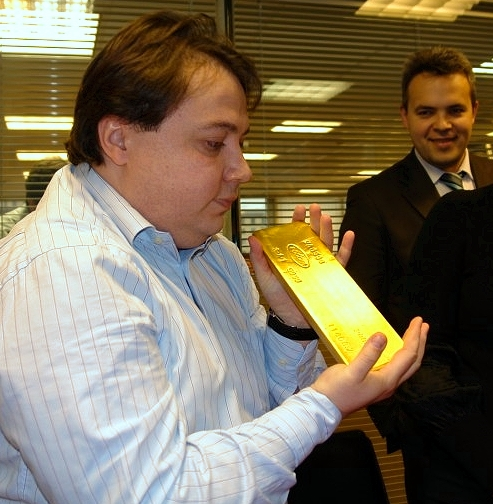 Anton Dranitsyn, MDM Bank